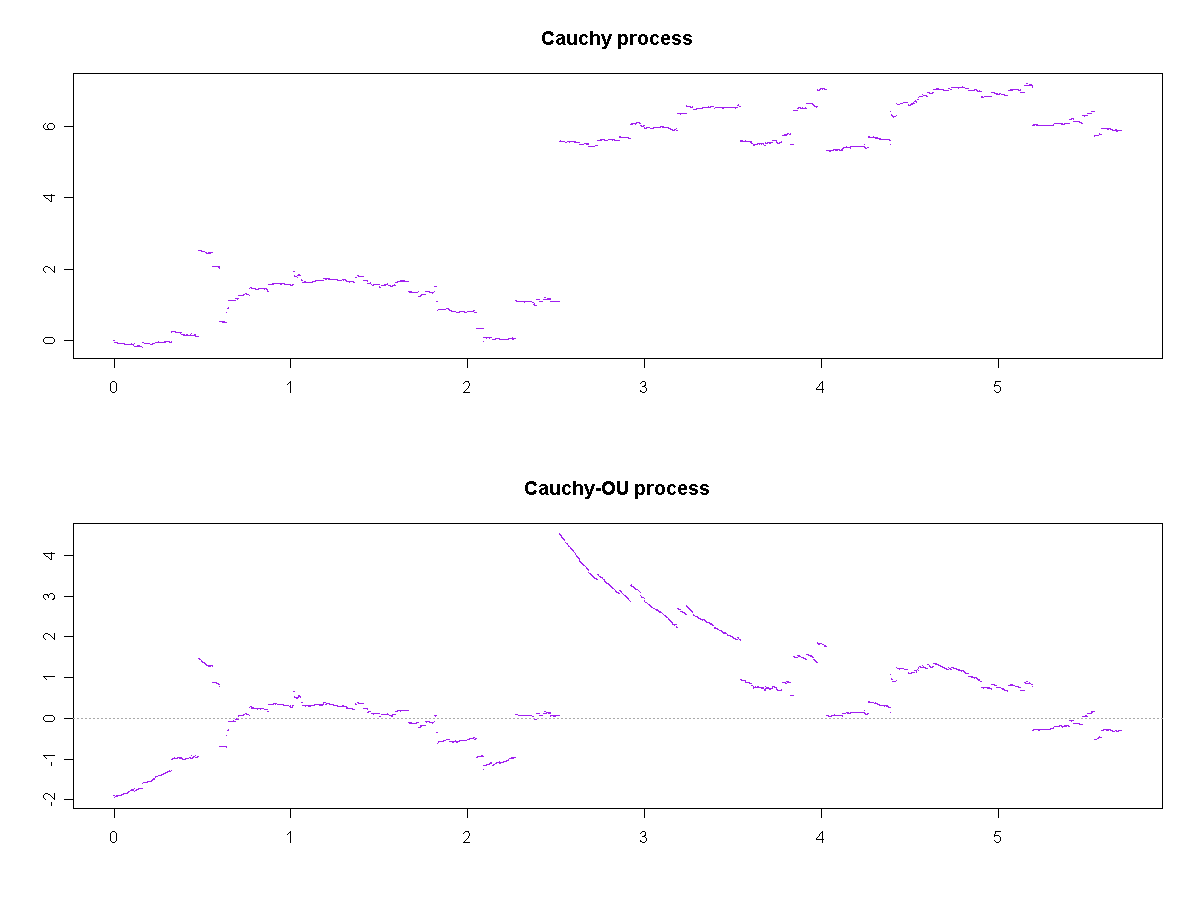 A cauchy-process (levy-process) and an OU process driven by it. and the median of the invariant distribution